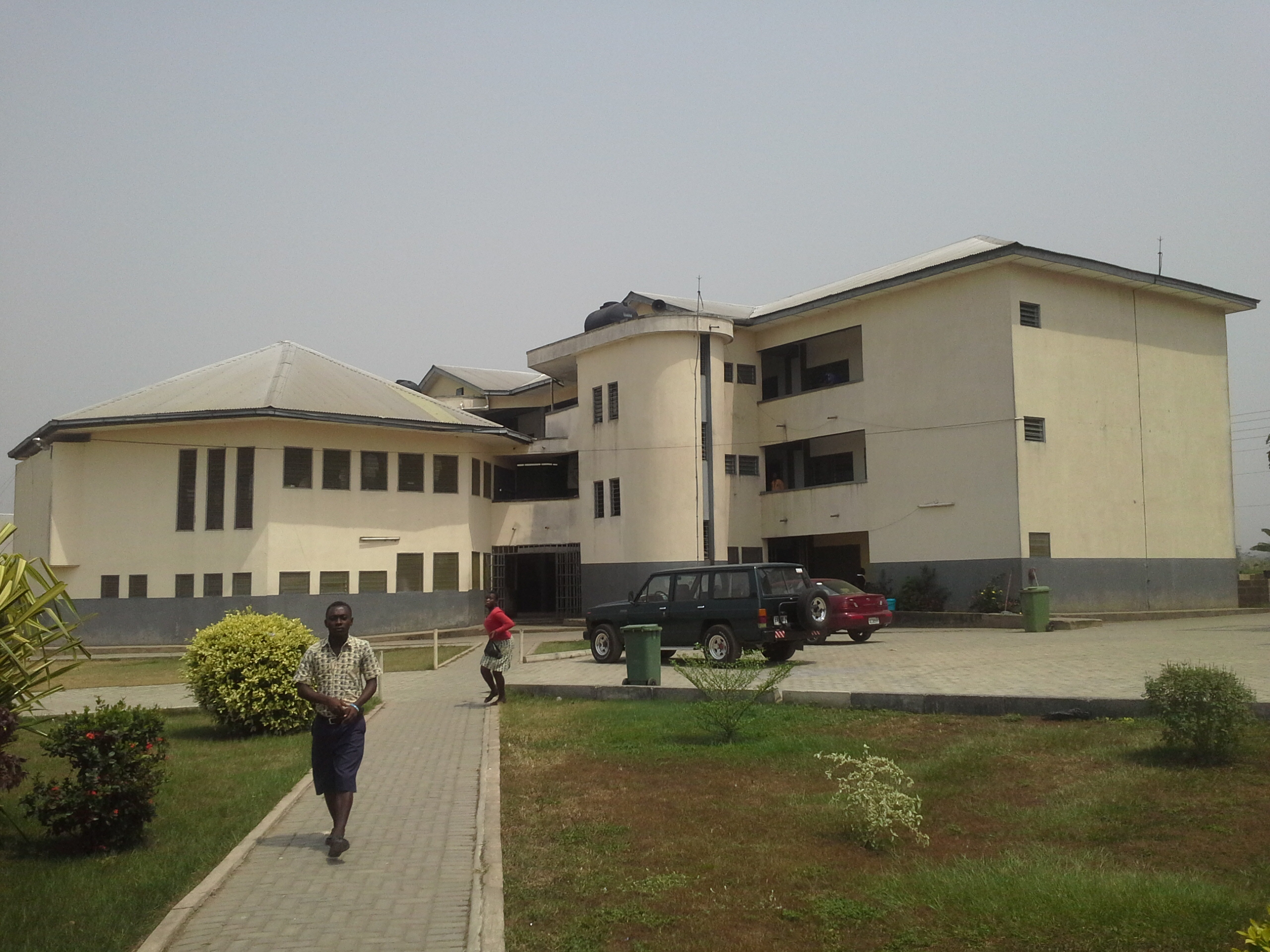 Pentecost Senior High School, located in Koforidua